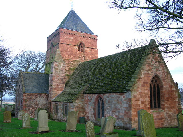 St Mary's Church, Whitekirk A Parish Church has been at Whitekirk since the 12th century, initially belonging to Holyrood Abbey. After miracles of healing were being performed at a nearby well the church was placed under the protection of James I. It survived almost without alteration until 1914, when it was set on fire by suffragettes. Careful restoration was carried out by Robert Lorimer. The tower has two small light openings, a stair-turret at the NW corner and a low slated spire. It has been used as a doocot with 39 nests cut out of the stone walls of the tower and 97 in recesses.